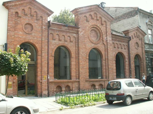 Zucker Synagogue in Kraków